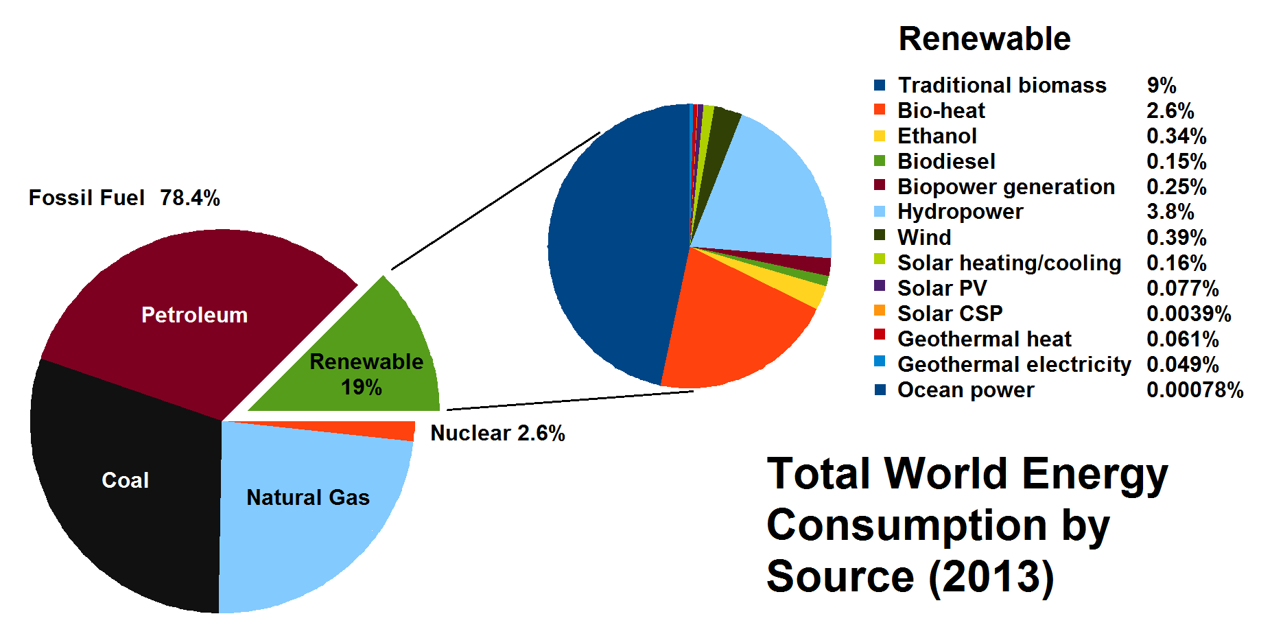 Total world energy consumption by source 2013, from REN21 Renewables 2014 Global Status Report.